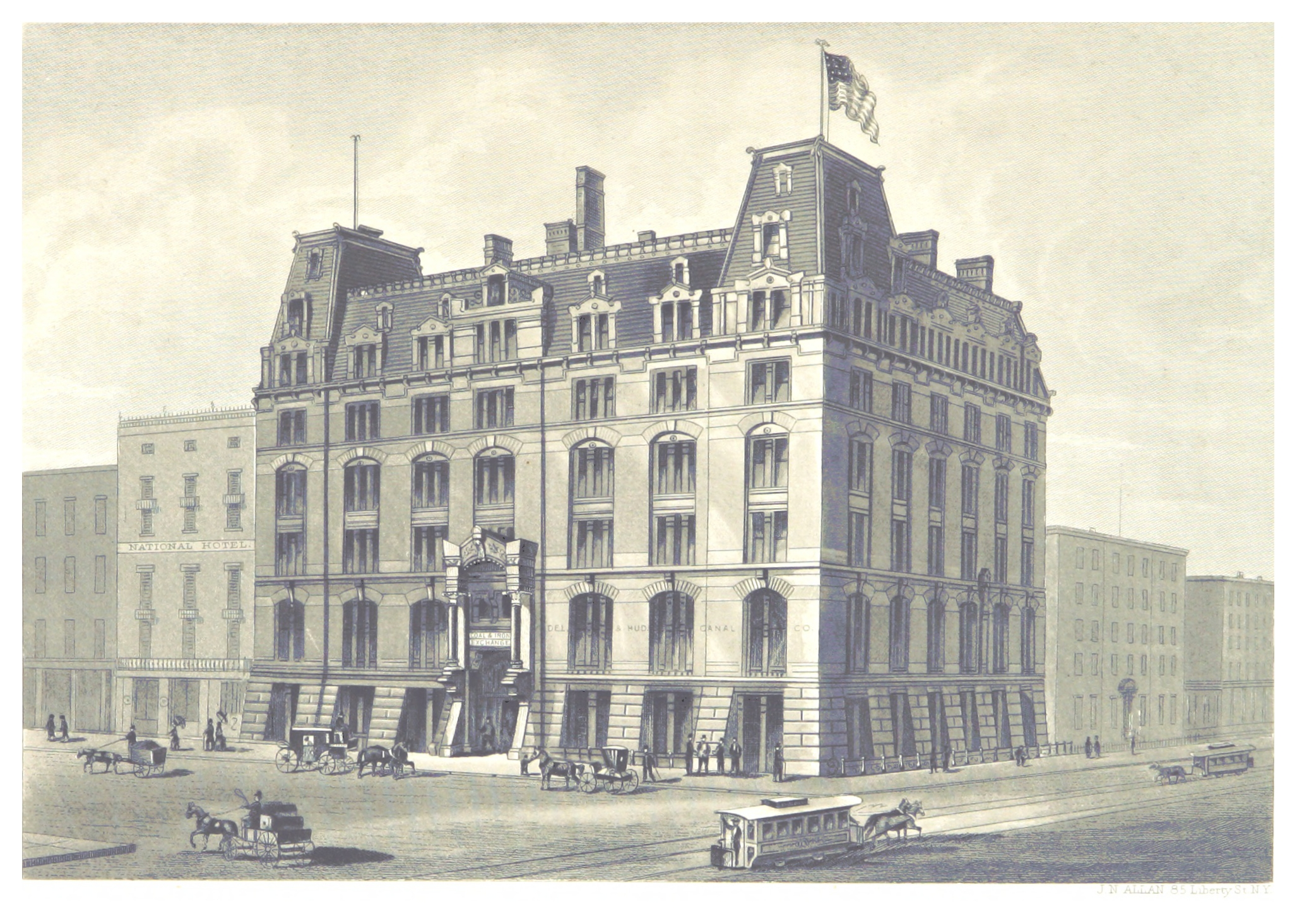 The Delaware & Hudson Canal Company's building is an immense and imposing fire-proof structure, generally known as the Coal and Iron Exchange. It is on Cortlandt Street, at the southeast corner of Church Street. It is not an "Exchange" building, excepting in name; but it is the property of the Delaware & Hudson Canal Company, for whom it was built in 1874-76, and whose main offices are located therein.